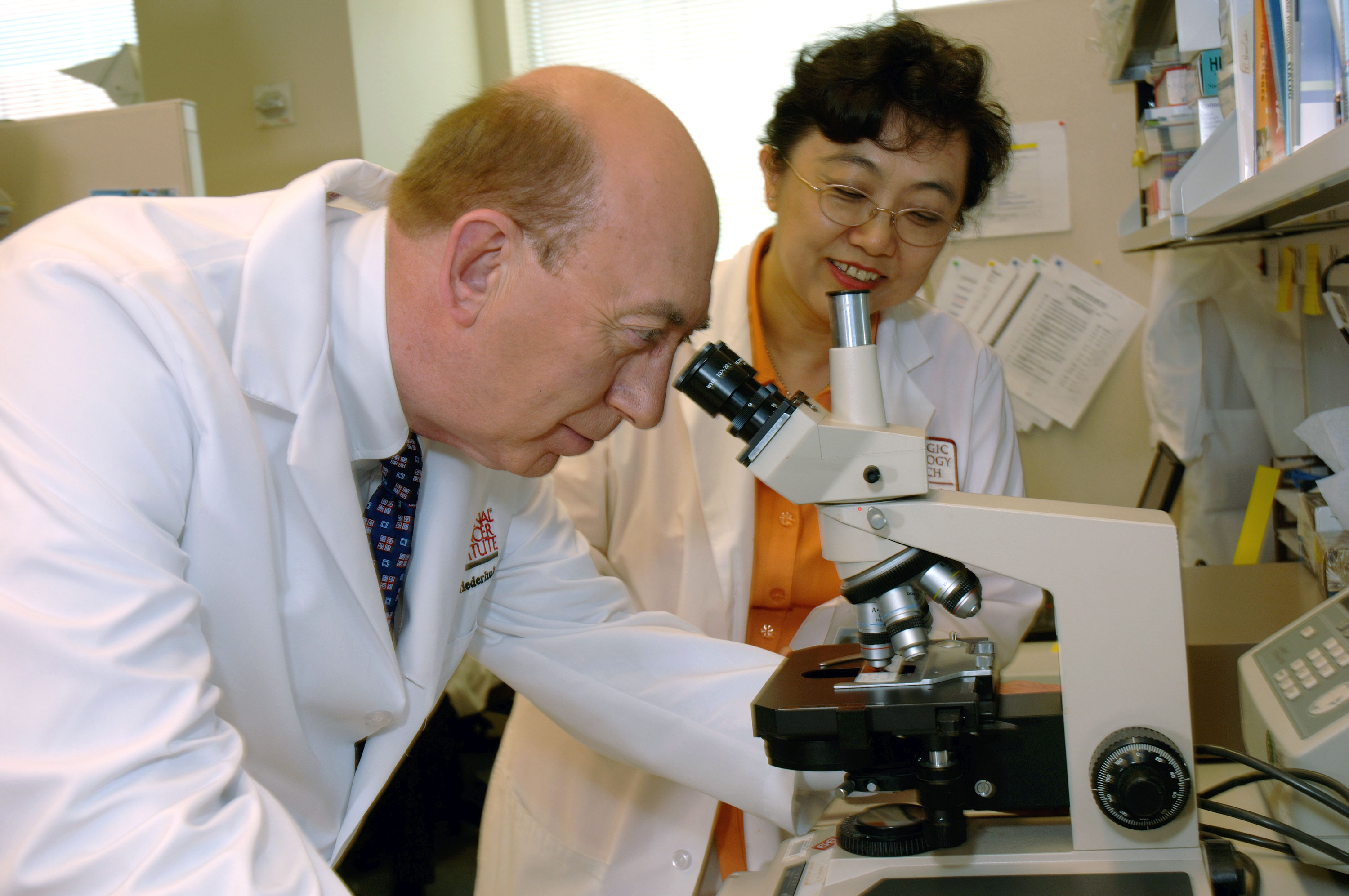 Institute: National Cancer Institute (NCI) Category: Directors Equipment Laboratories Scientists Description: Dr. John E. Niederhuber, the Director of the National Cancer Institute